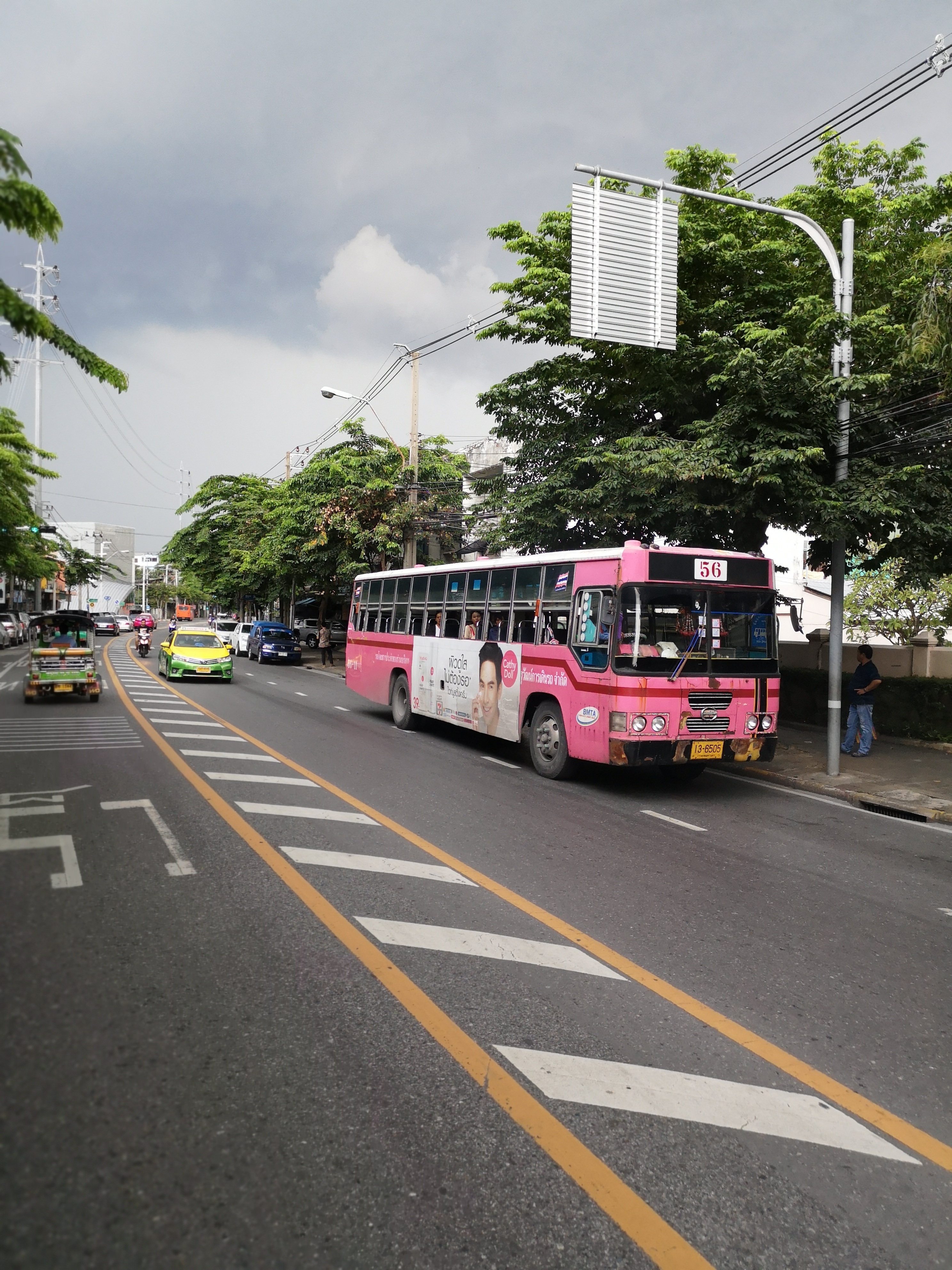 Thanon Issaraphap